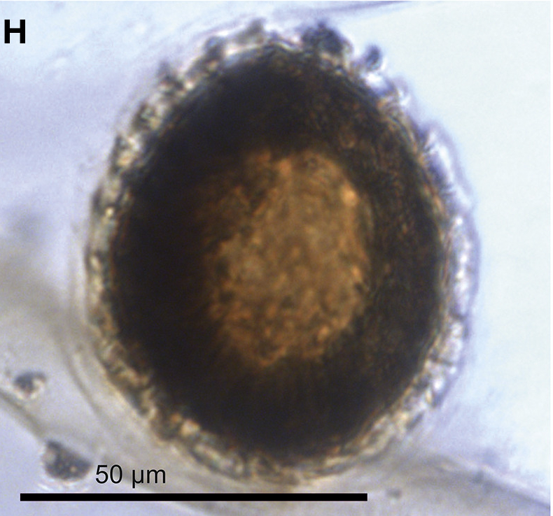 (H) Rounded zonasulculate grains of sample NIGP171365, described herein as Praenymphaeapollenites cenomaniensis, a newly defined angiosperm pollen.